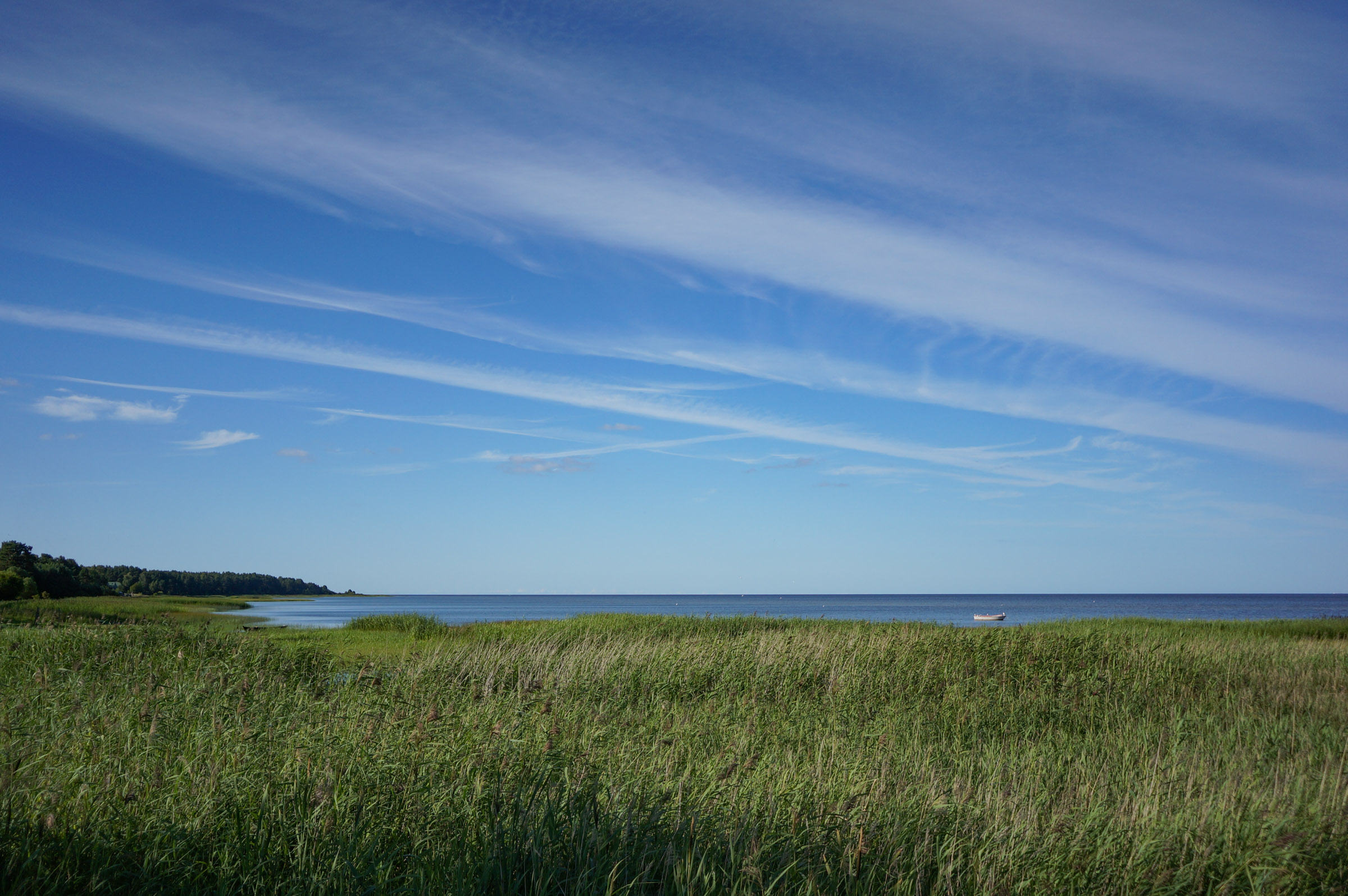 Bērzciems village seasideLatviešu: Bērzciemam raksturīgā savdabīgā jūrmala, kura gandrīz visā ciema garumā ir apaugusi ar zāli un niedrēm.